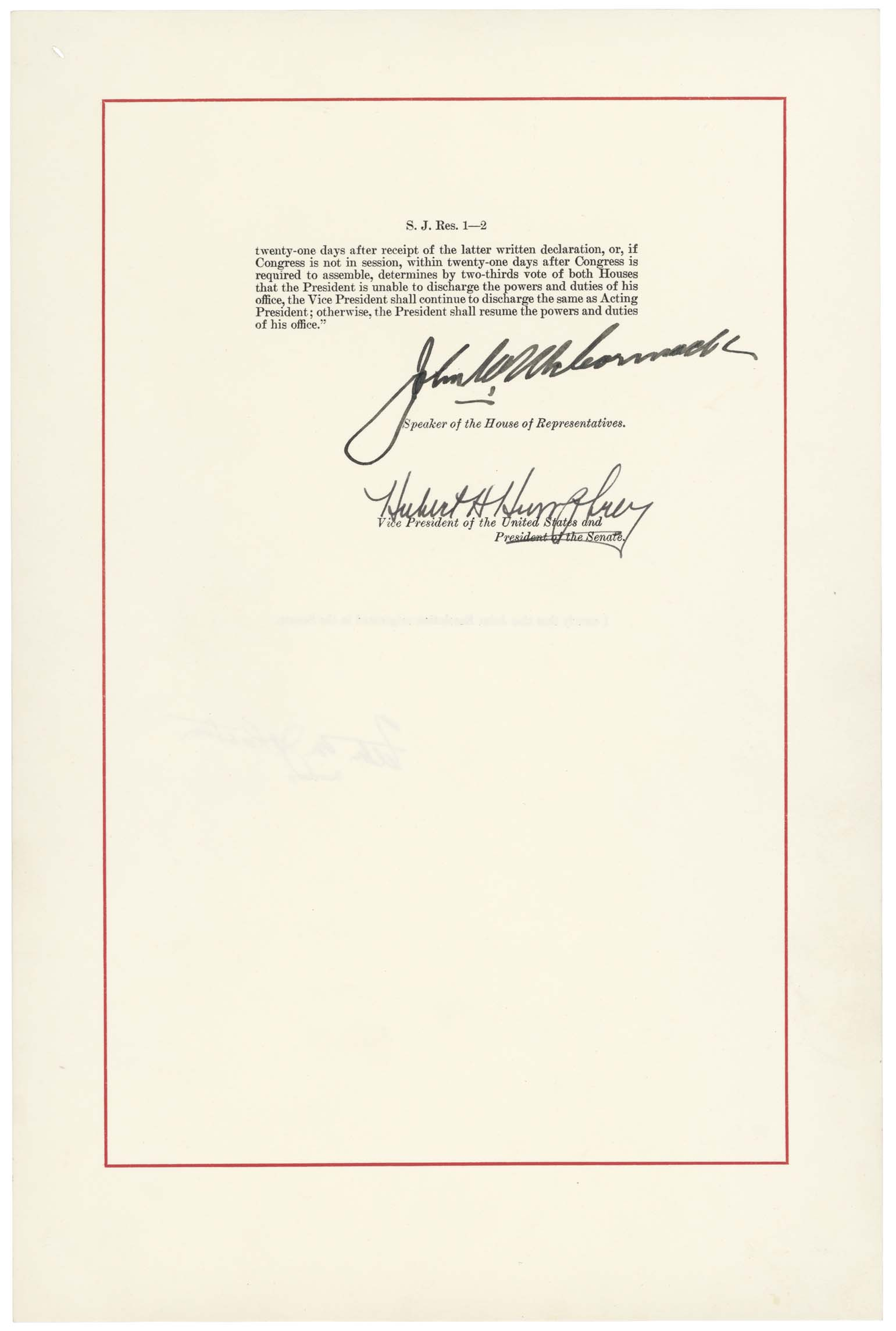 Joint Resolution Proposing the Twenty-fifth Amendment to the United States Constitution, page 2